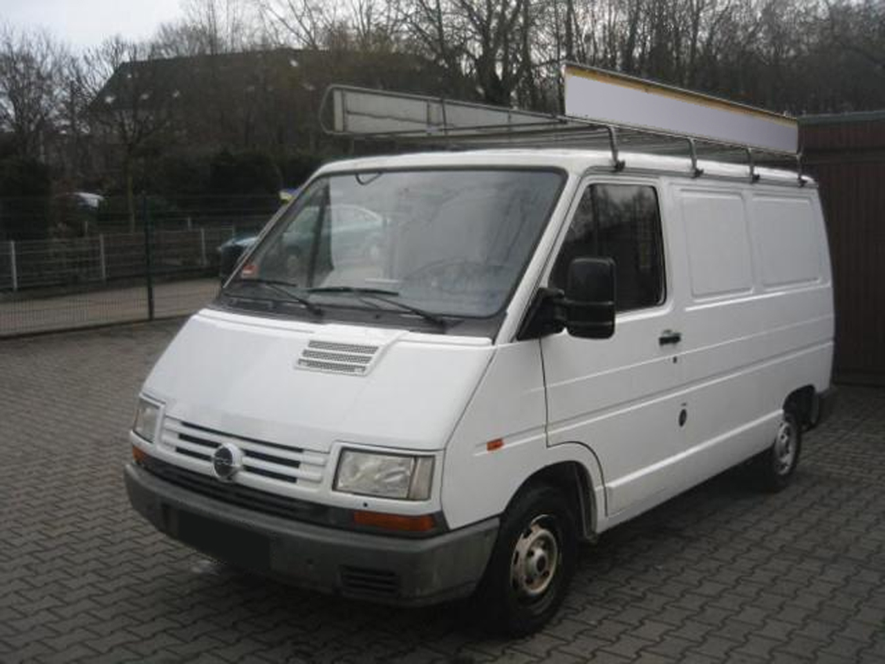 It's twin is the Renault Trafic